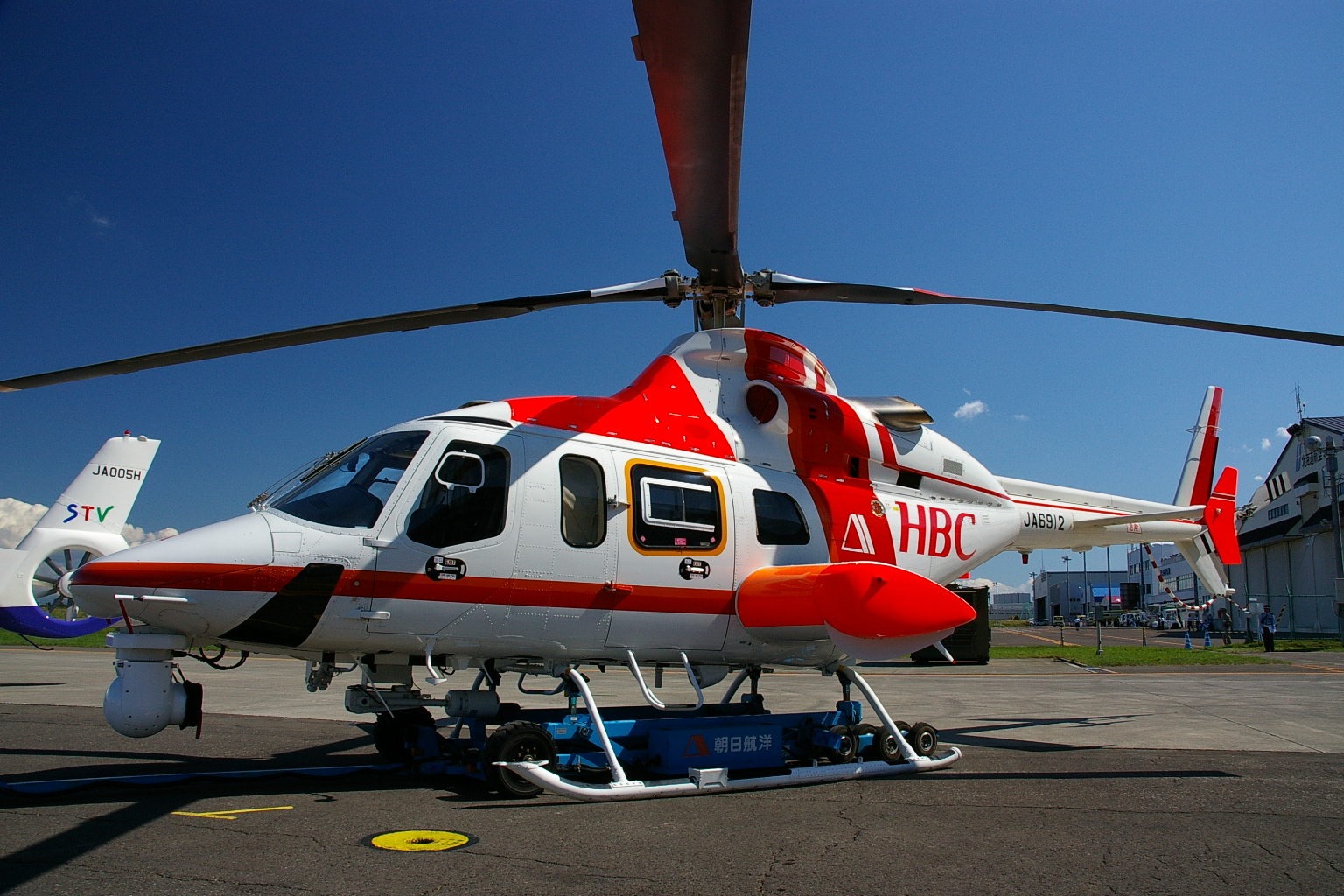 Bell 430, Aero Asahi Corporation, HBC.